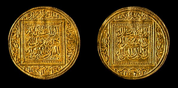 Hafsid dinar coin, minted during the reign of Abu Zakariya' Yahya I ibn 'Abd al Wahid (1230 - 1249 AD). 29 mm, 4.78 gm.